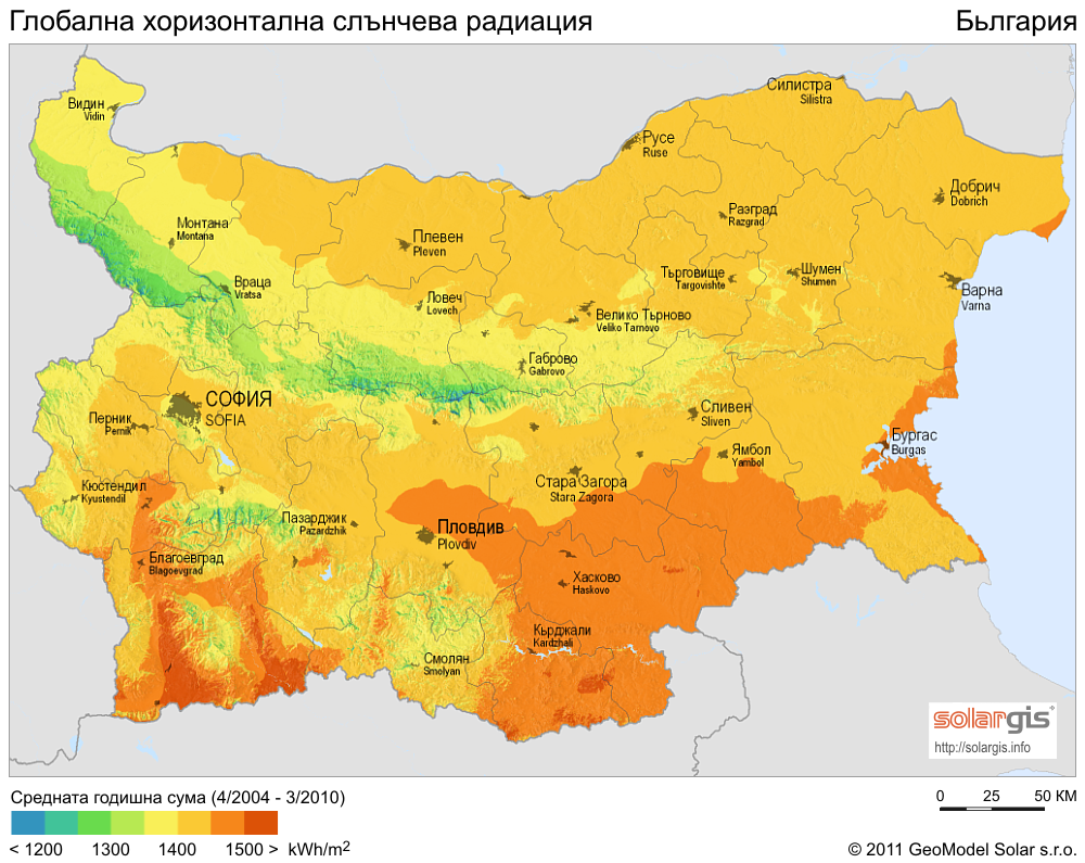 Solar Radiation Map: Global Horizontal Irradiation Map of Bugaria (Bulgarian language)